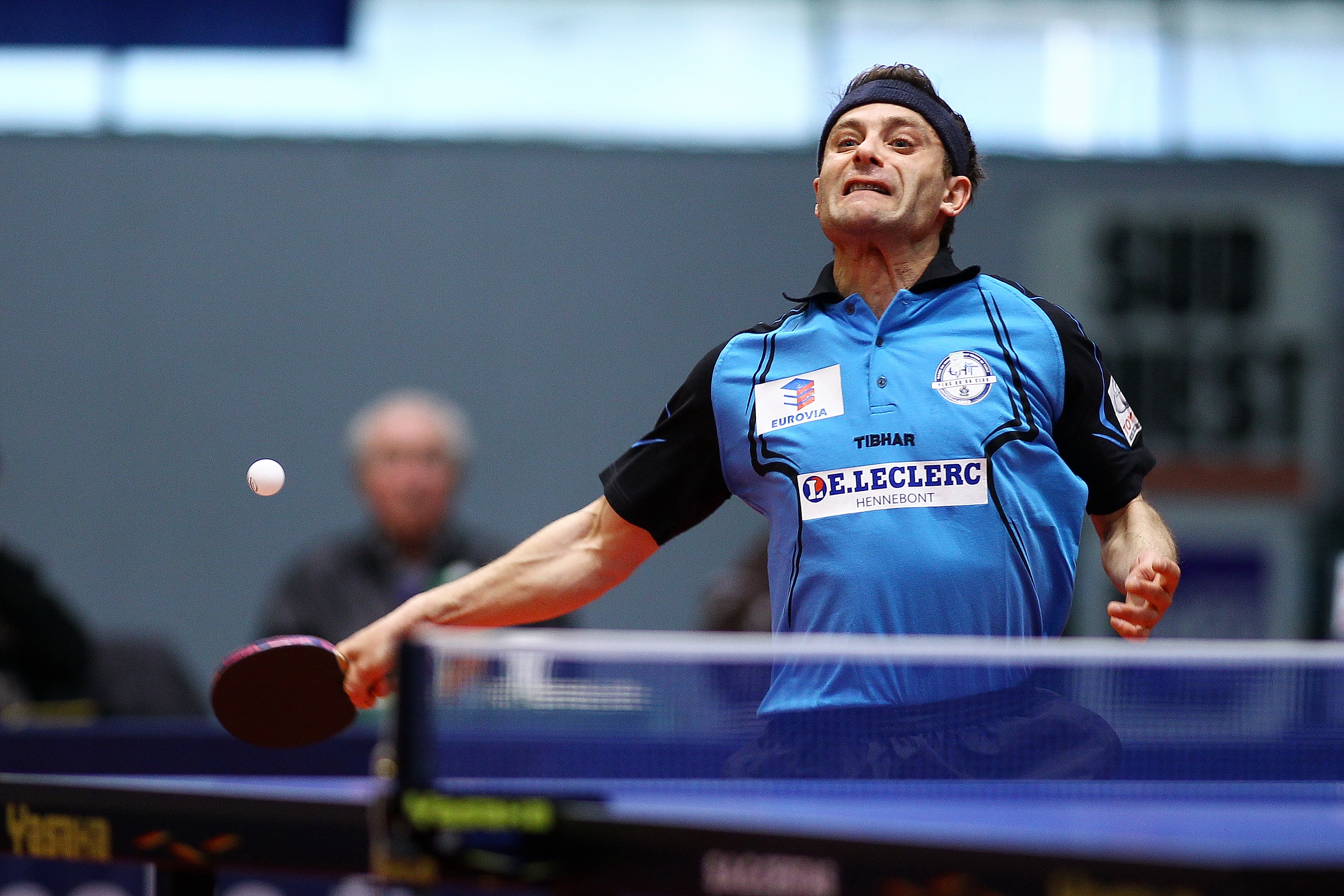 Table Tennis player